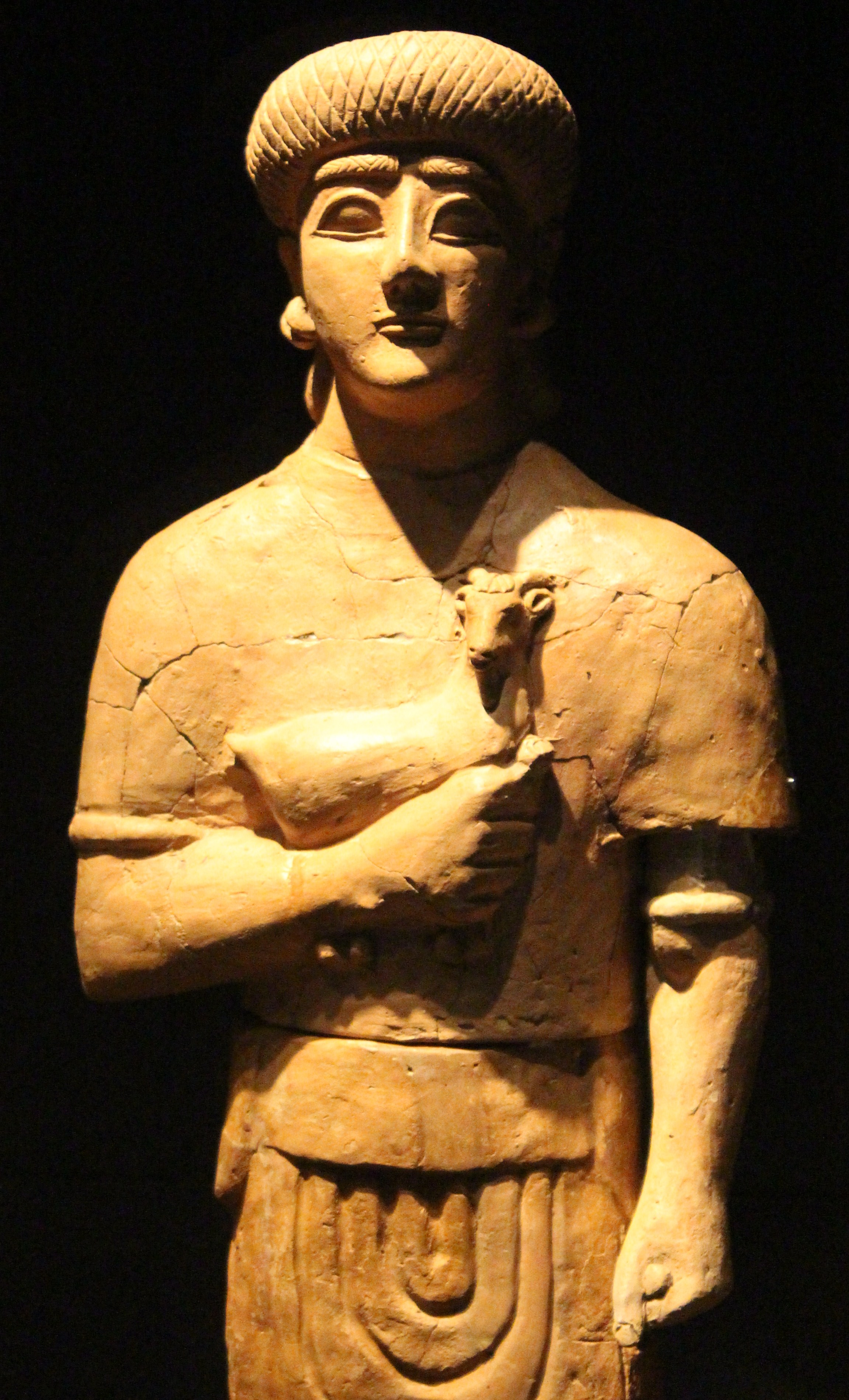 Votives. Terracotta figurines from Ajia Irini, Cyprus This is a photo of an artwork at the Mediterranean Museum in Sweden with the identifier: Votives